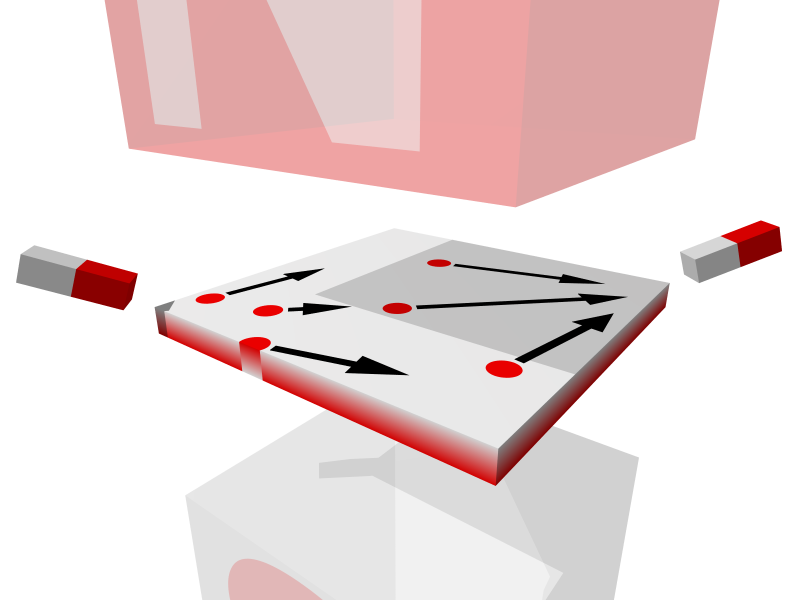 This image shows how external fields (symbolized by small magnets left and right) working at an angle can "push" and "pull" domains, or "bubbles" in the orthomagnetic sheet of a magnetic bubble element.